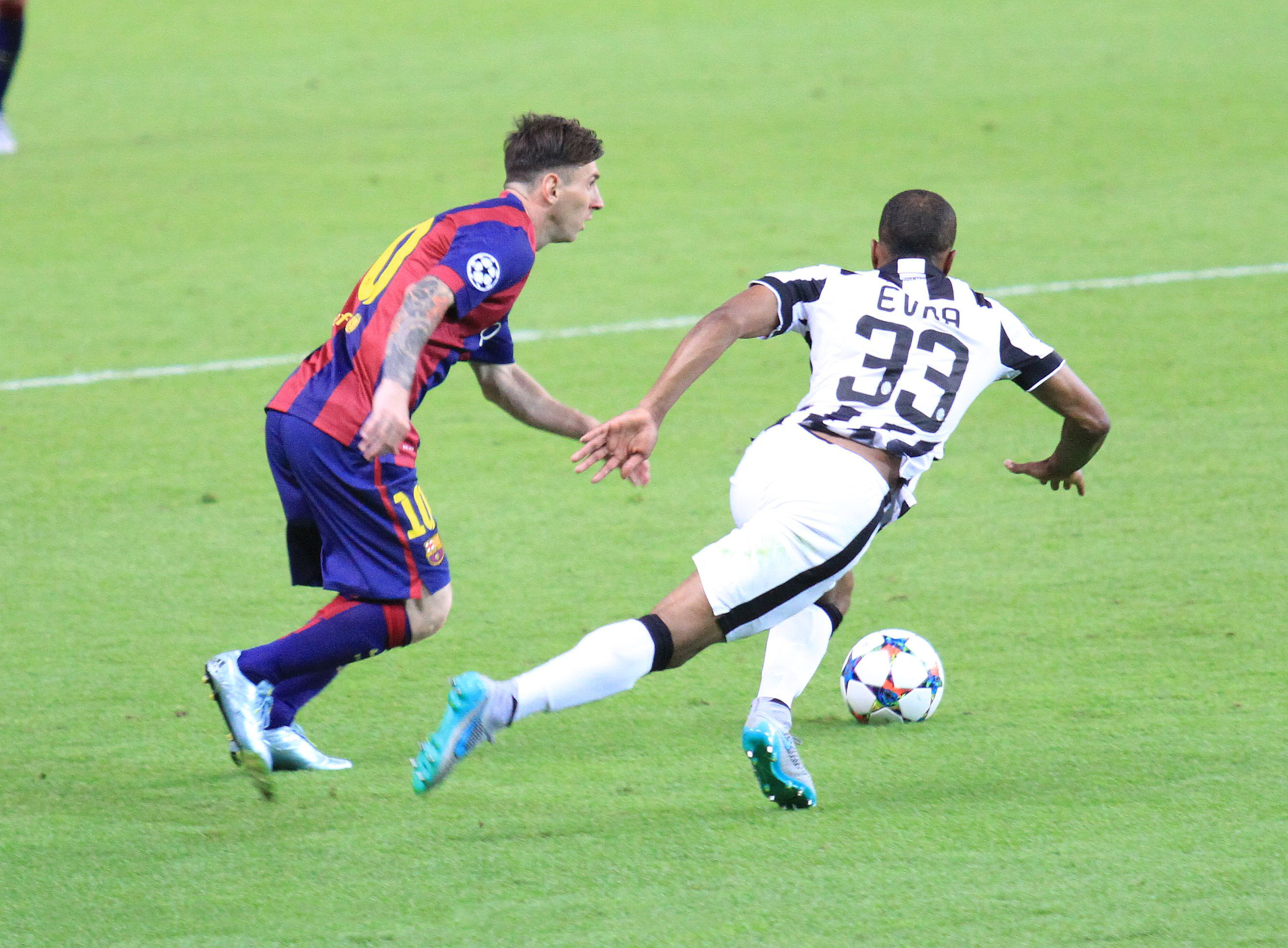 Moment of the Champions League final FC Barcelona - Juventus, featuring Leo Messi and P. Evra, Olympiastadion, Berlin, June 6, 2015